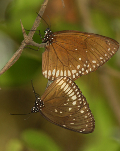 Brown King Crow (Euploea klugii) butterflies mating. Phototaken at Sanjay Gandhi National Park, Mumbai.